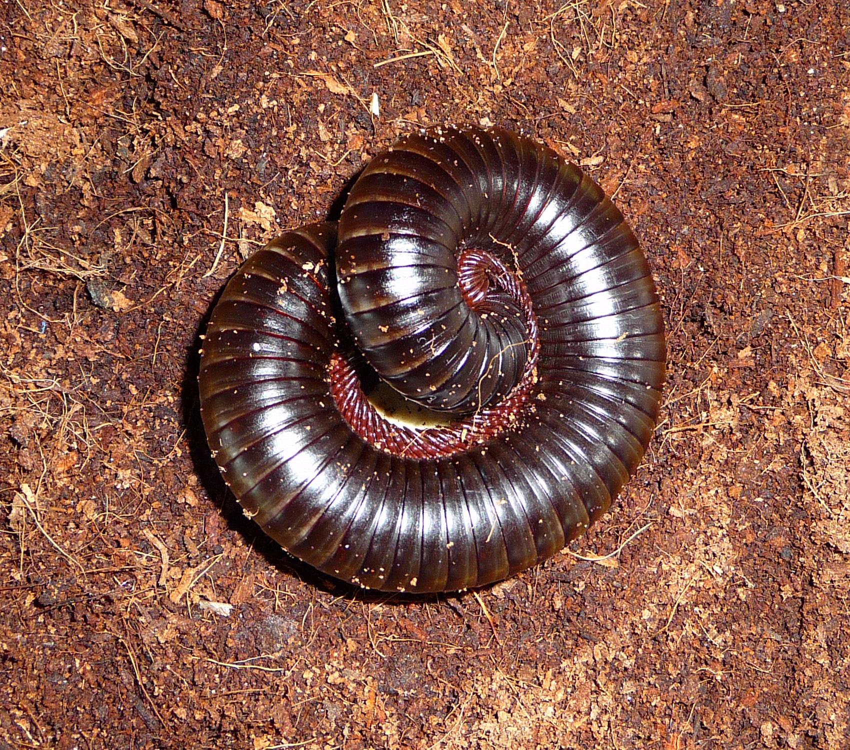 Chongololo or the giant African millipede. Archispirostreptus gigas (Peters, 1855)